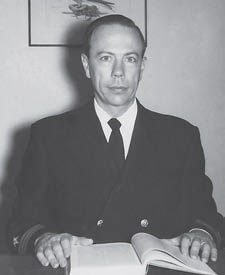 Mathematician Andrew Mattei Gleason in Naval Reserves uniform, 1960s